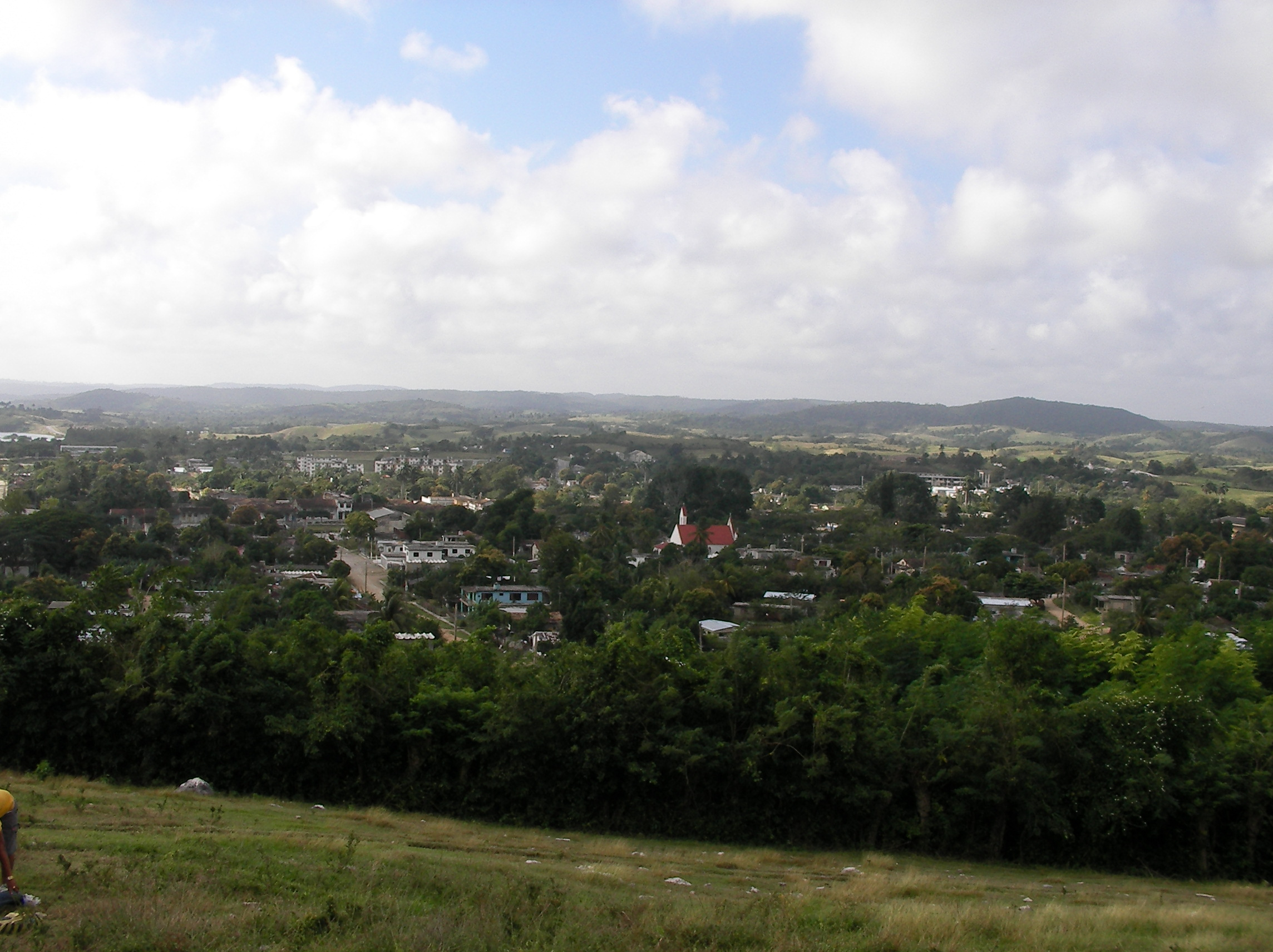 Florencia Valley